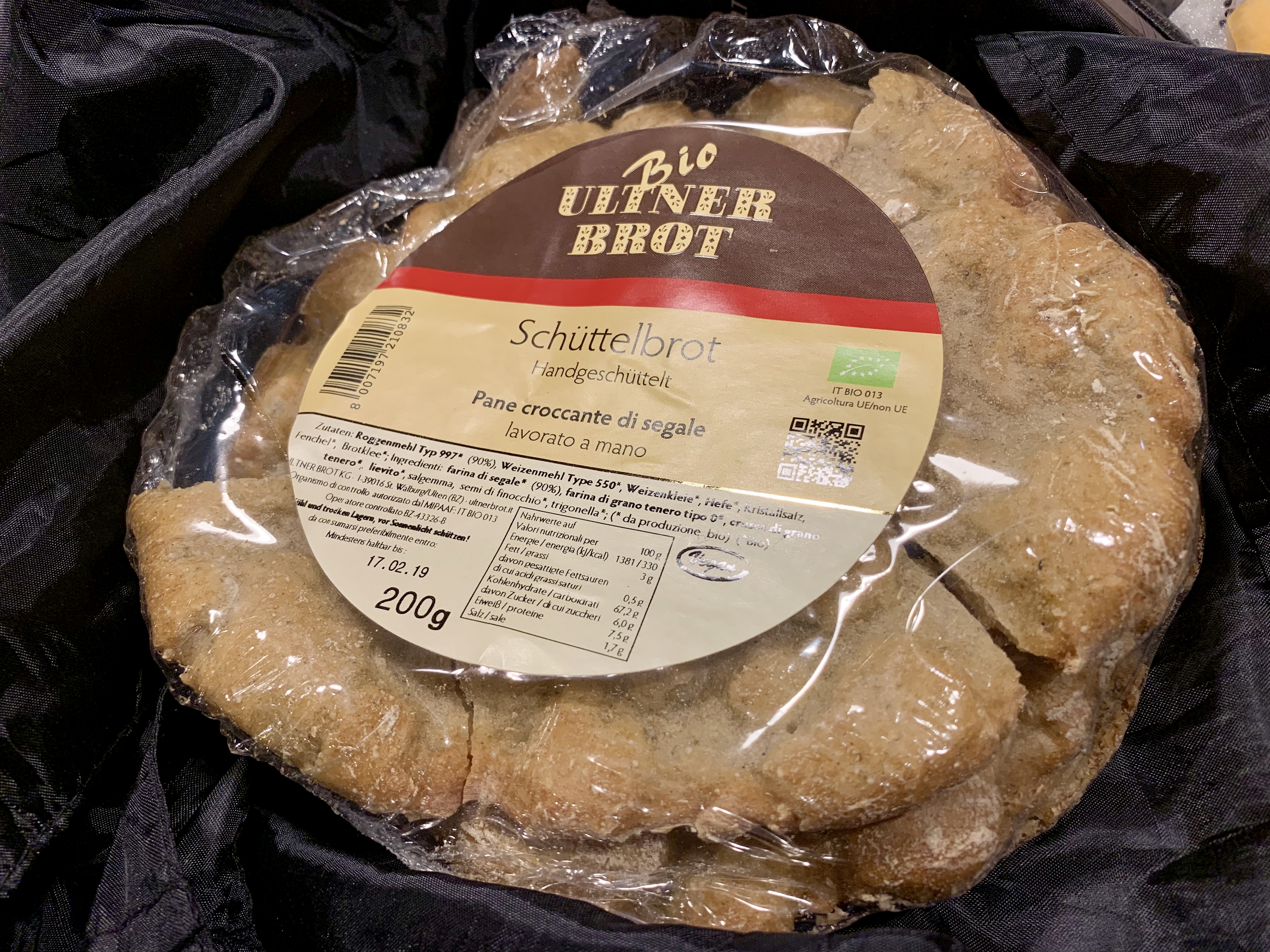 Schüttelbrot bought in German supermarket REWE in 2018